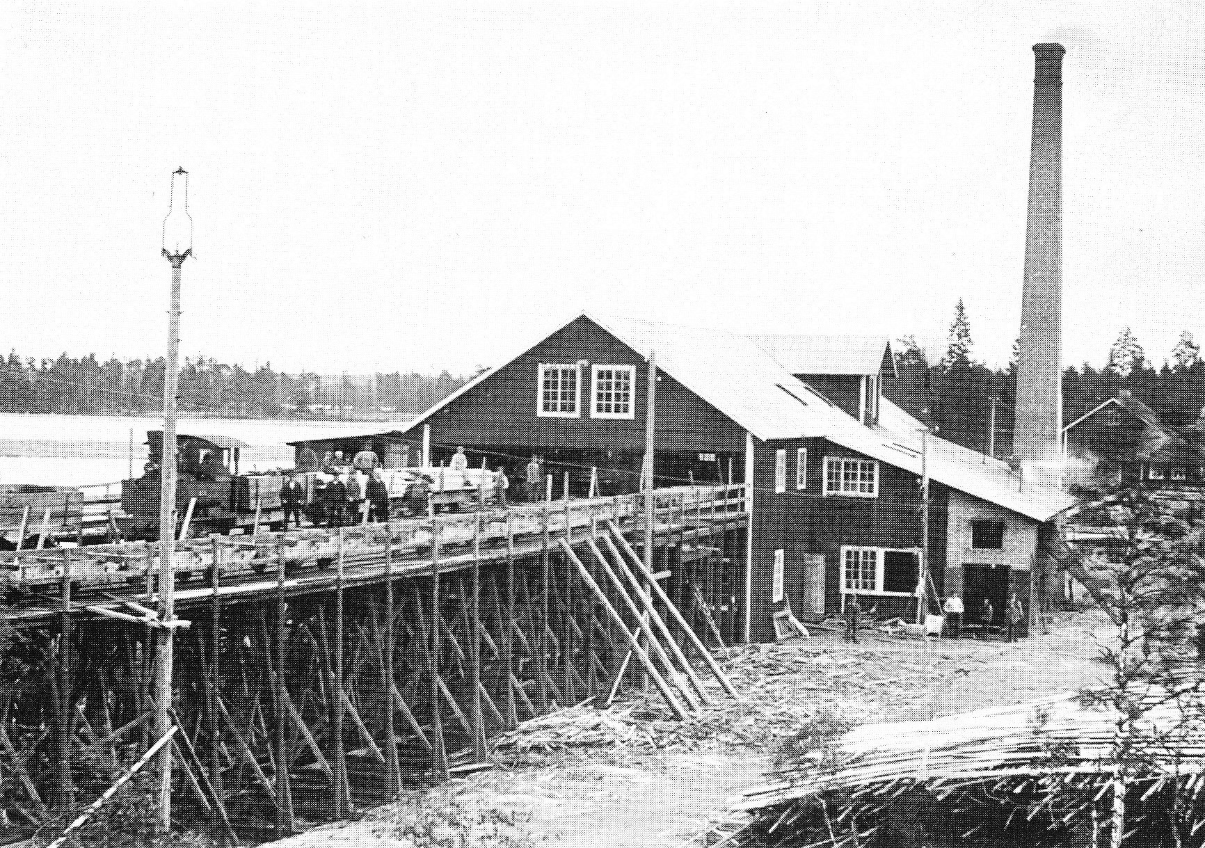 The saw mill at Visjön (Wisjön) in Kosta in Sweden. On the left is the Kosta-Lessebo Järnväg engine No 1 PYSEN. The picture was taken prior to 1920, when PYSEN was withdrawn from service.